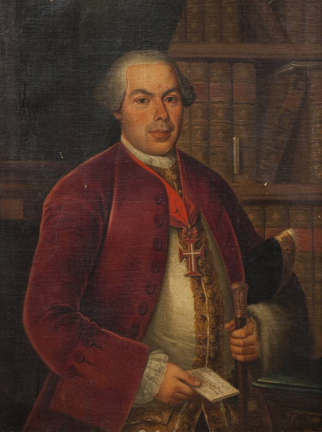 Portrait of Dr. João Mendes Sachetti Barbosa (1714-1774), Head Physician of the Royal Armies of Portugal